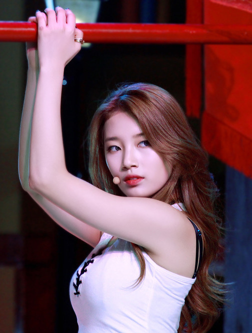 Suzy on 16 December 2013